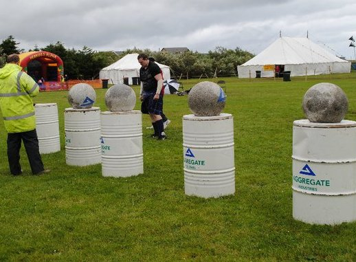 Strength Athlete completing MacGlashan Stone at The Western Isles Strongest Man 2010